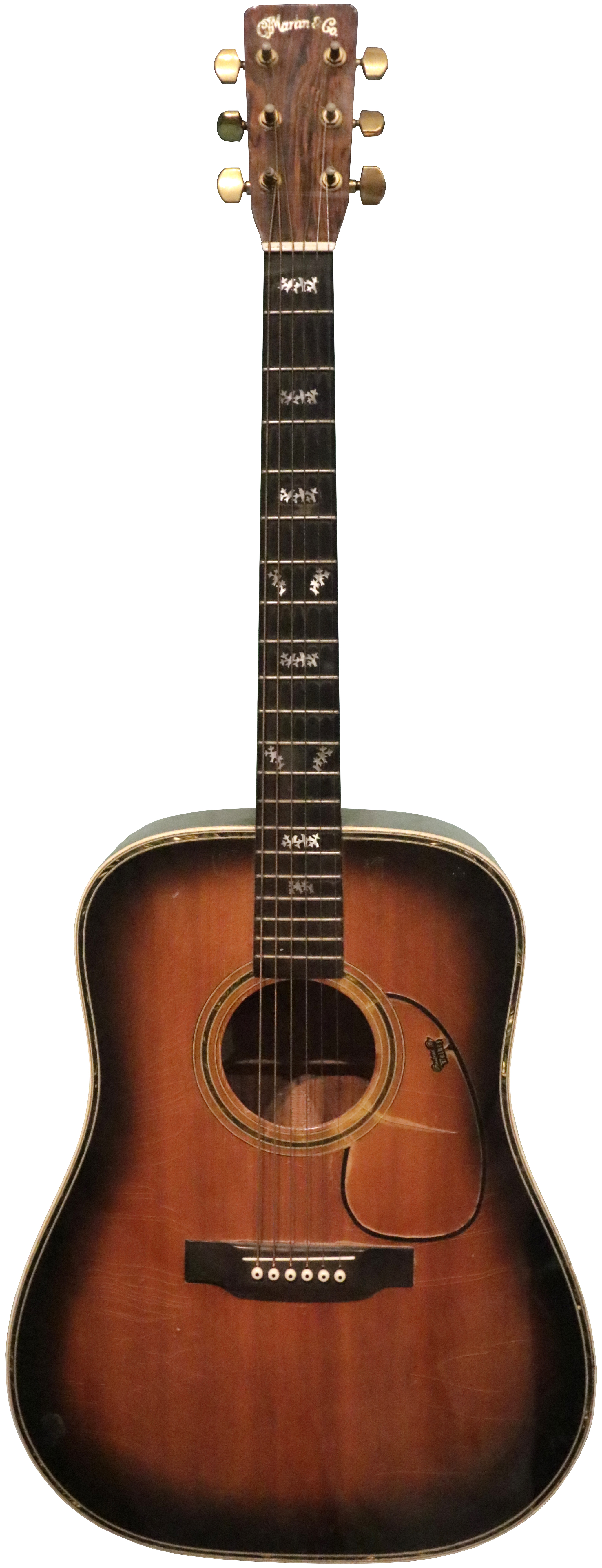 Ricky Nelson's circa 1967 Martin D-28 guitar (Rock and Roll Hall of Fame, Cleveland, OH).